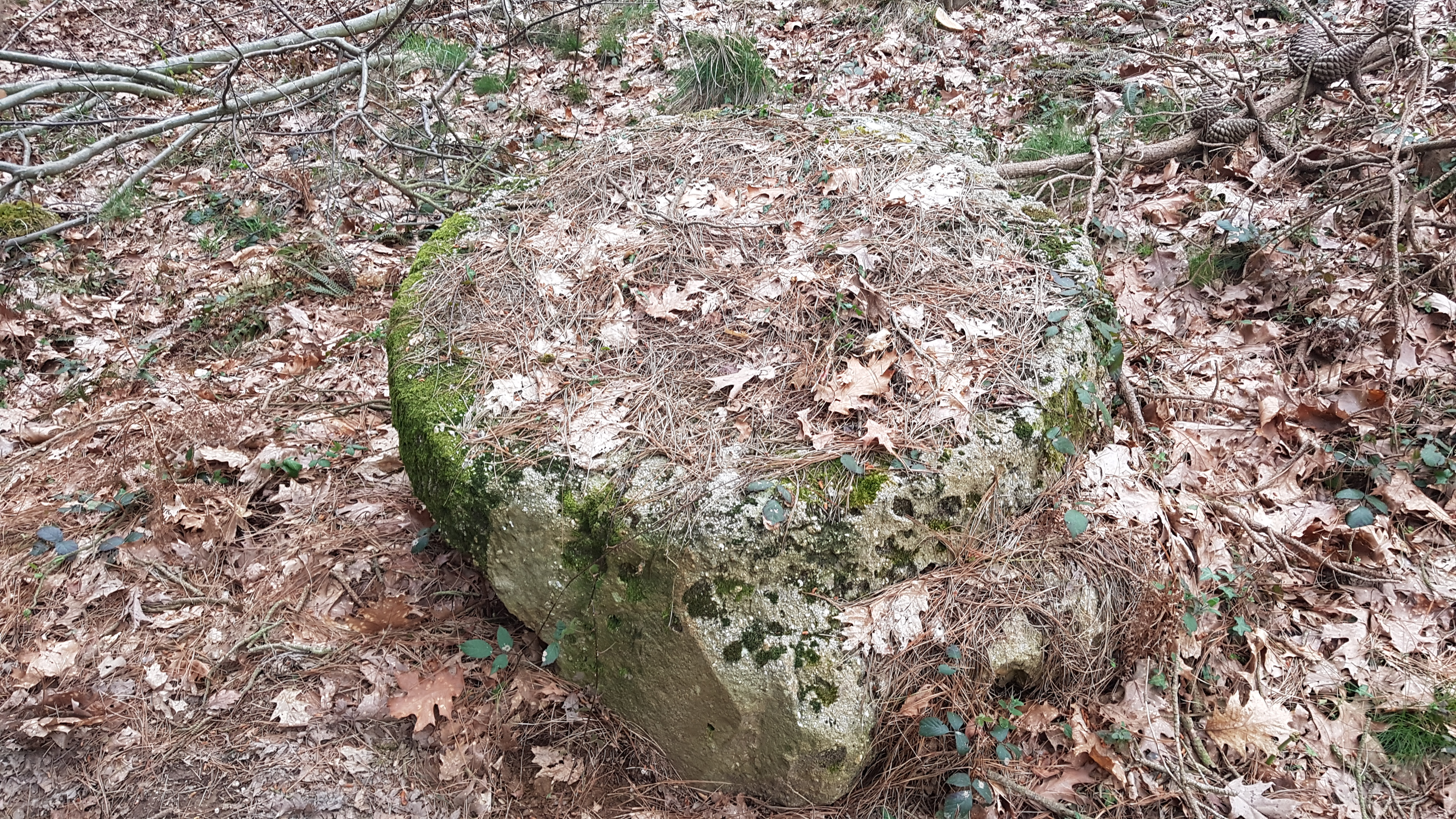 Unfinished millstone with central hole covered by tree litter in the Andatza mountain of Usurbil (Basque Country)